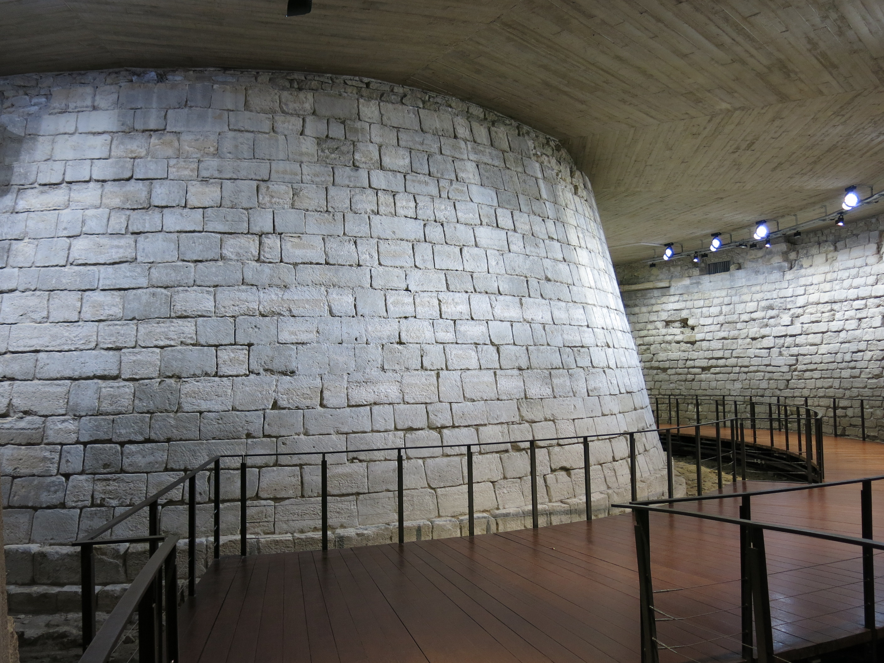 Lower part of the keep (dungeon) of the Louvre castle in the medieval Louvre (Paris, France).